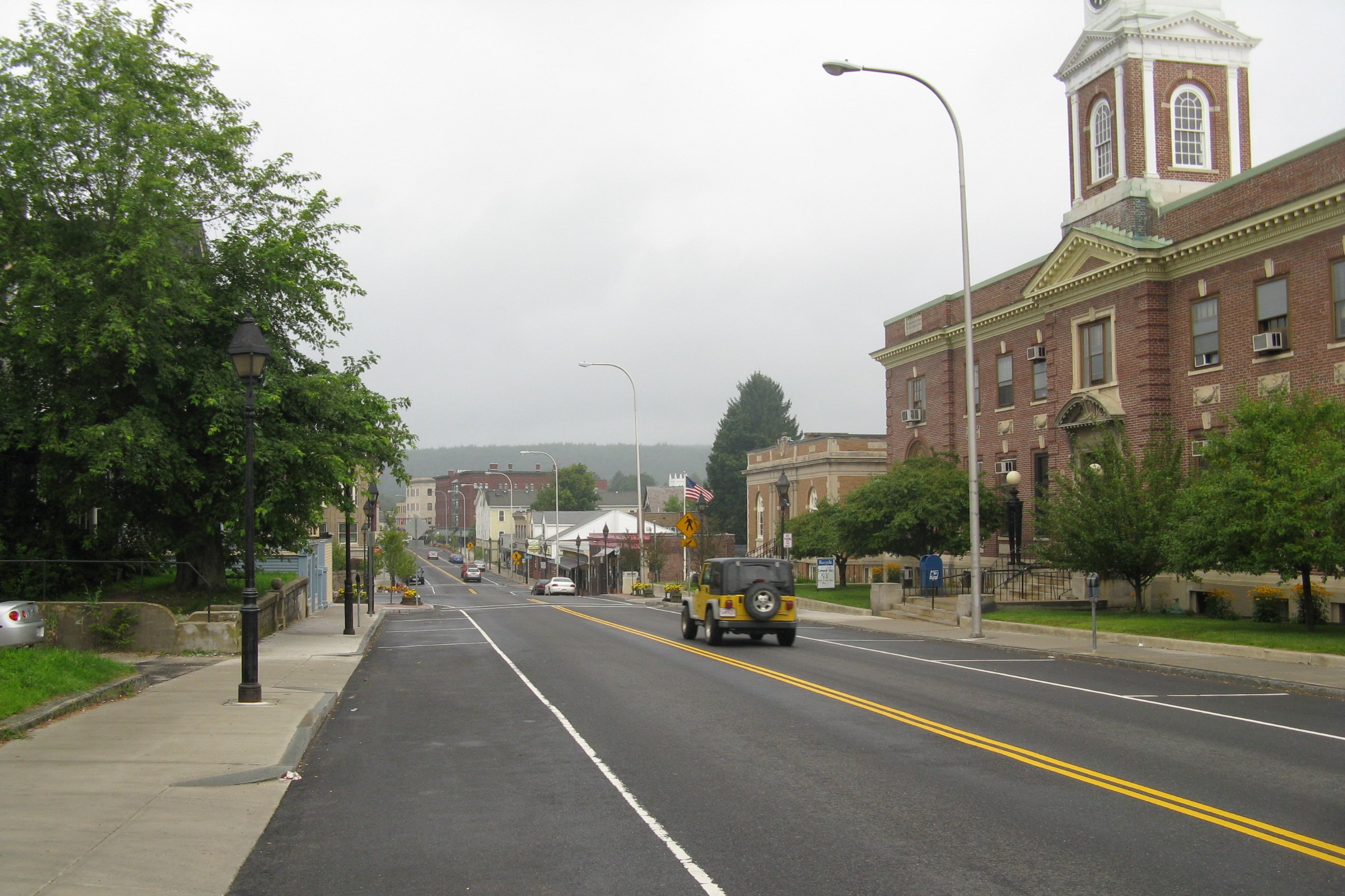 Main Street and Town Hall, Athol Massachusetts